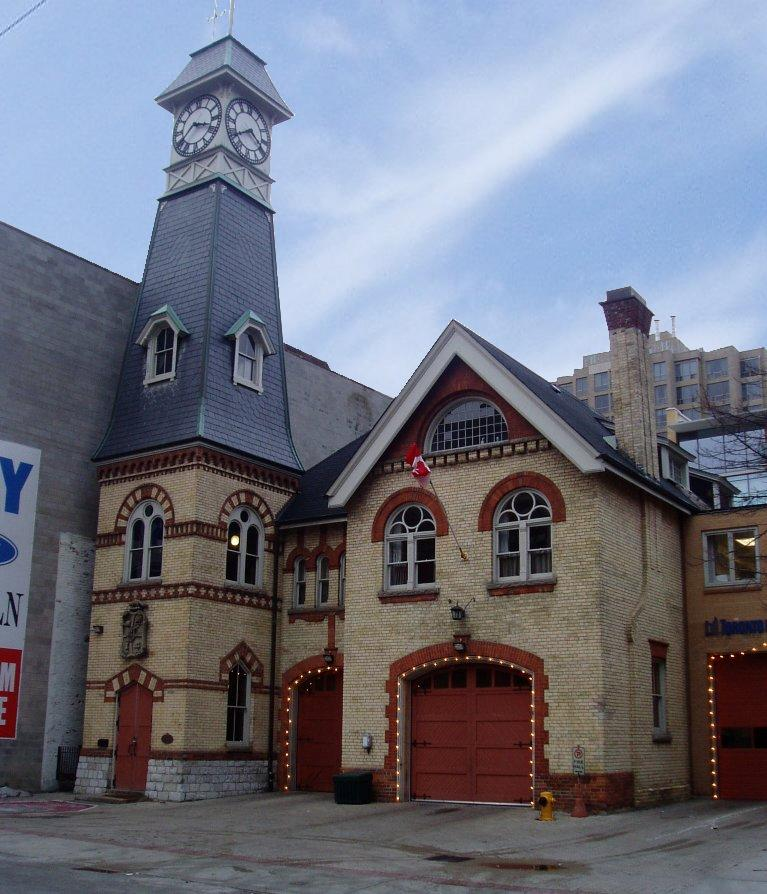 Toronto Fire Station No. (TFD #) 312, originally TFD No. 10. It is one of the oldest fire stations in Toronto, Canada, and was built in 1878. This building today serves as a clock tower. Taken by SimonP